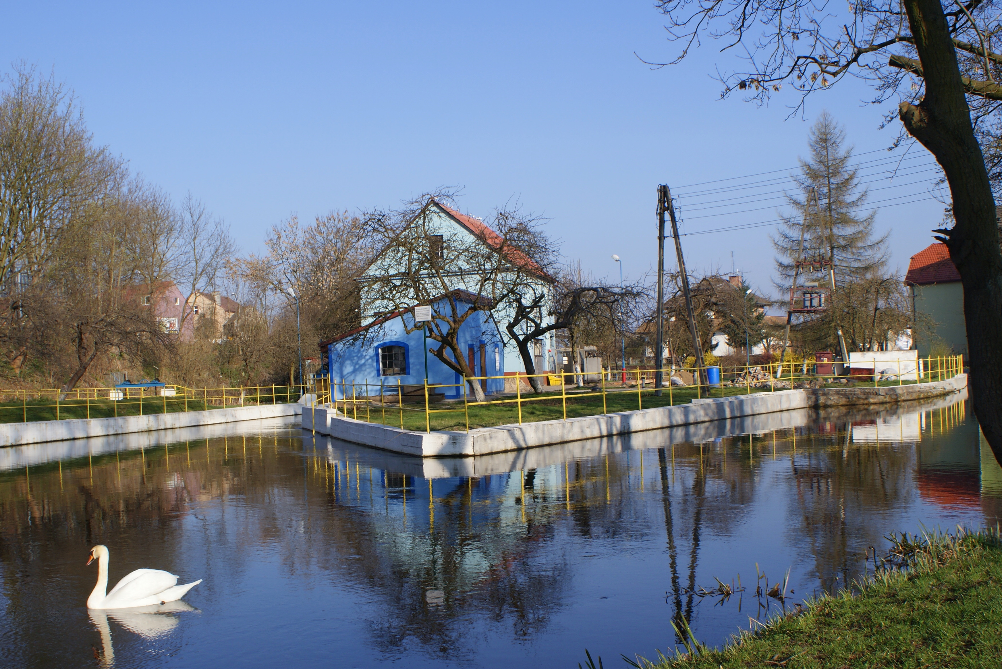 Small hydro in Trzebiatów, Poland